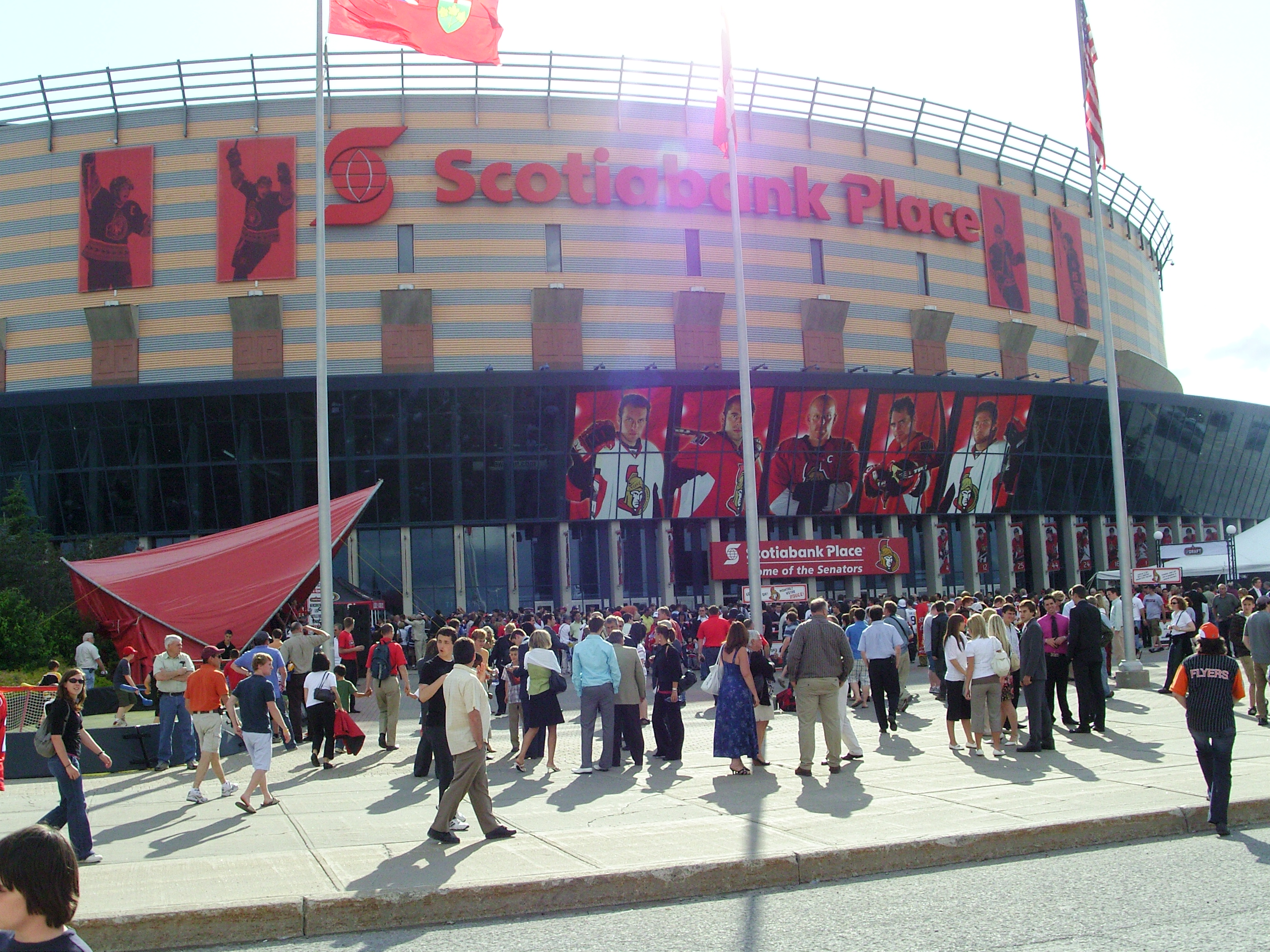 Front plaza of Scotiabank Place on Draft night.